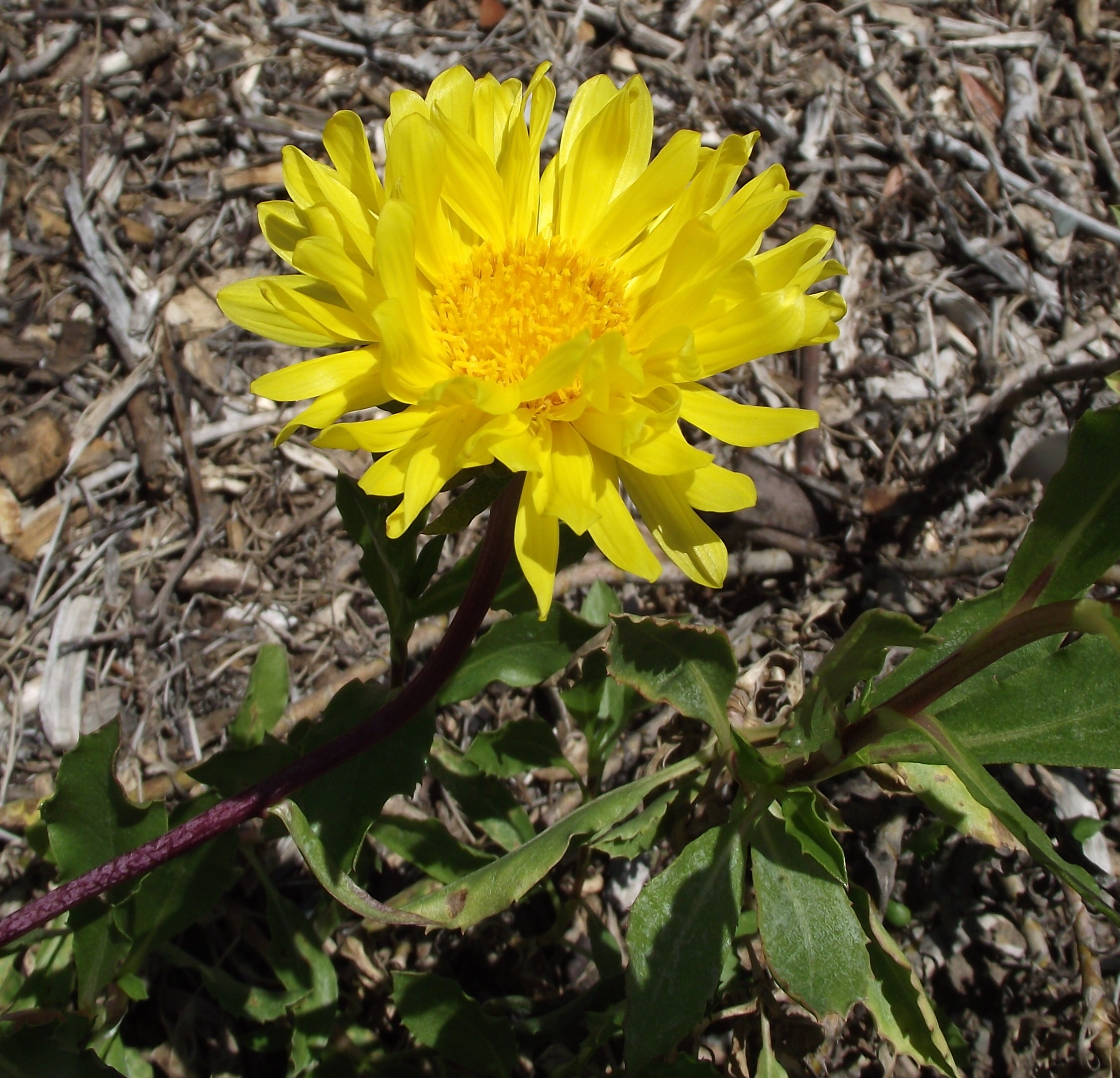 Grindelia chiloensis in the UC Botanical Garden, Berkeley, California, USA. Identified by sign.